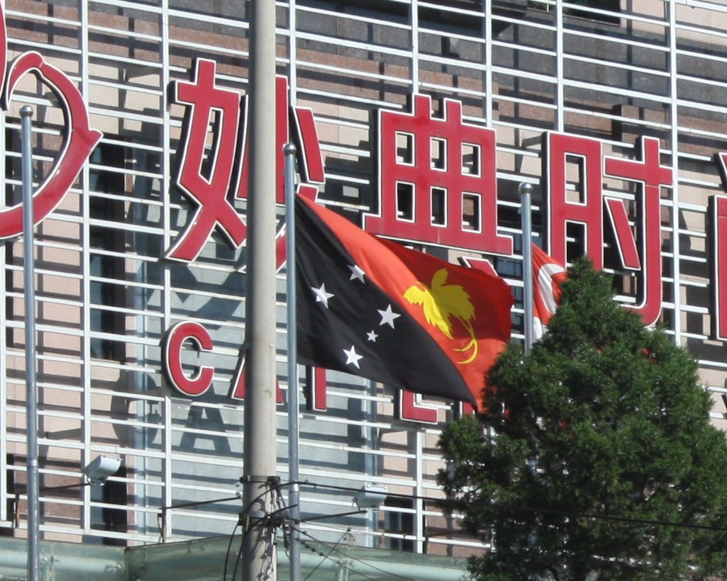 Flag of Papua New Guinea in Beijing/China